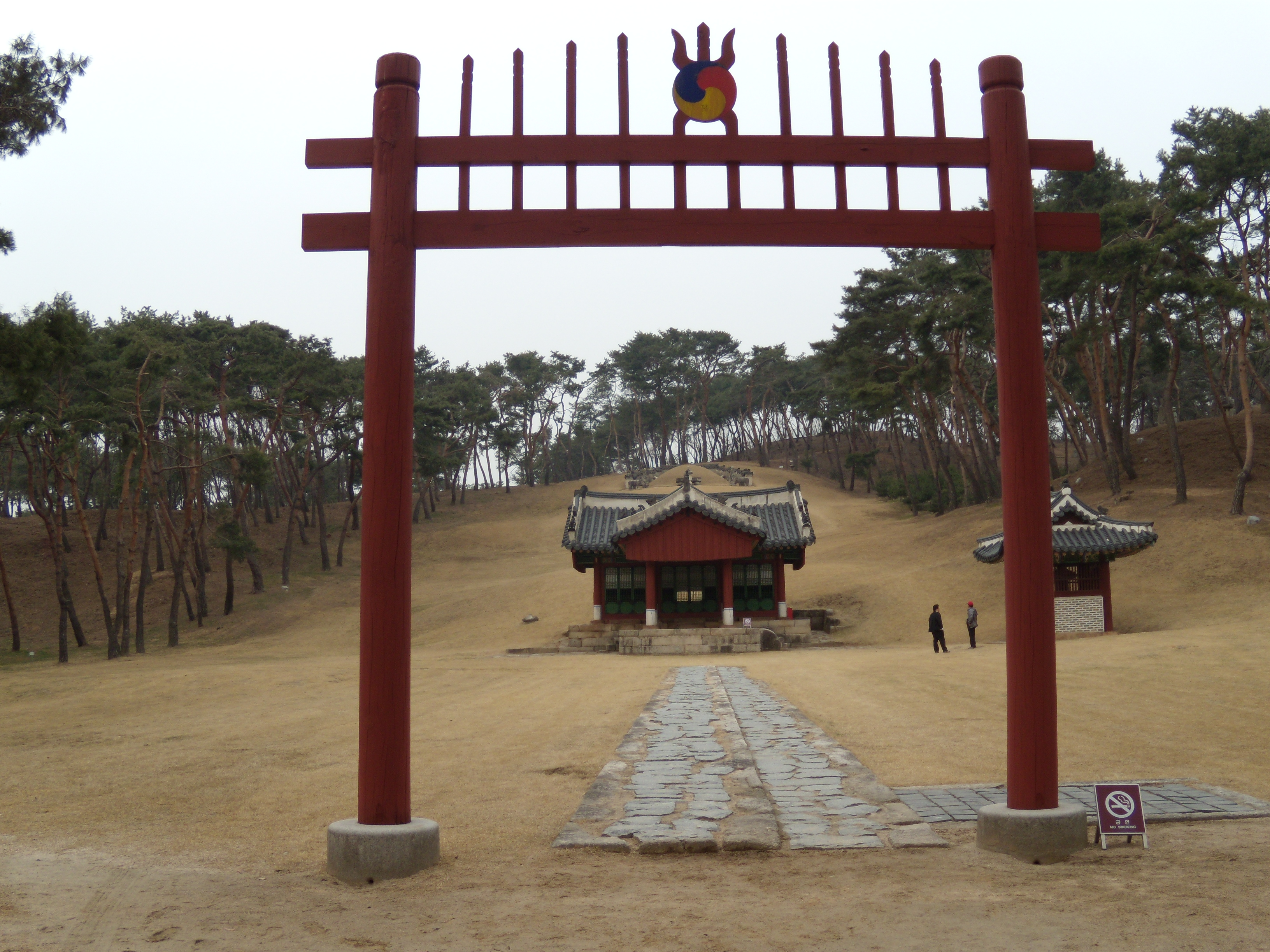 Sareung royal tomb